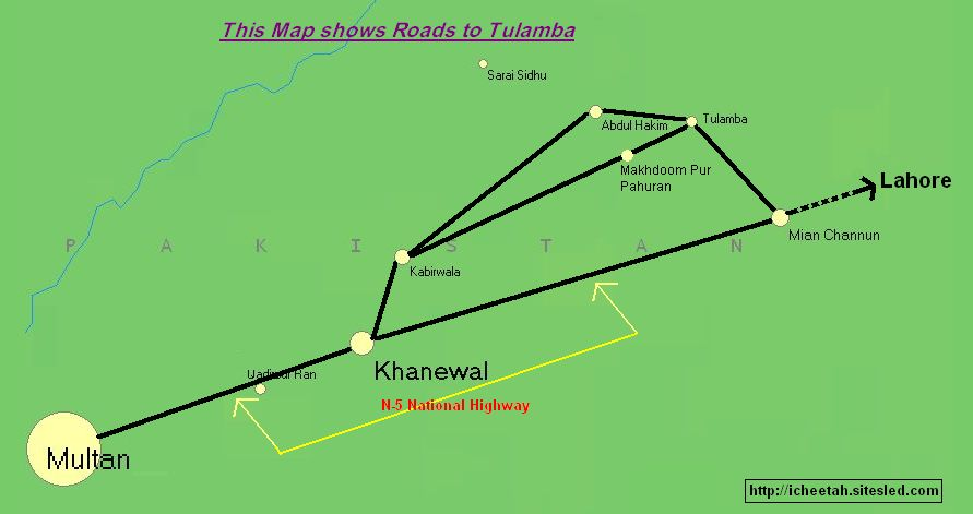 Road Map of Tulamba Qadeer Ahmad Rana